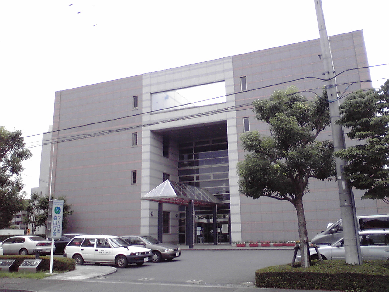 These are buildings of Tsukuba city hall Kasuga branch (Japan).